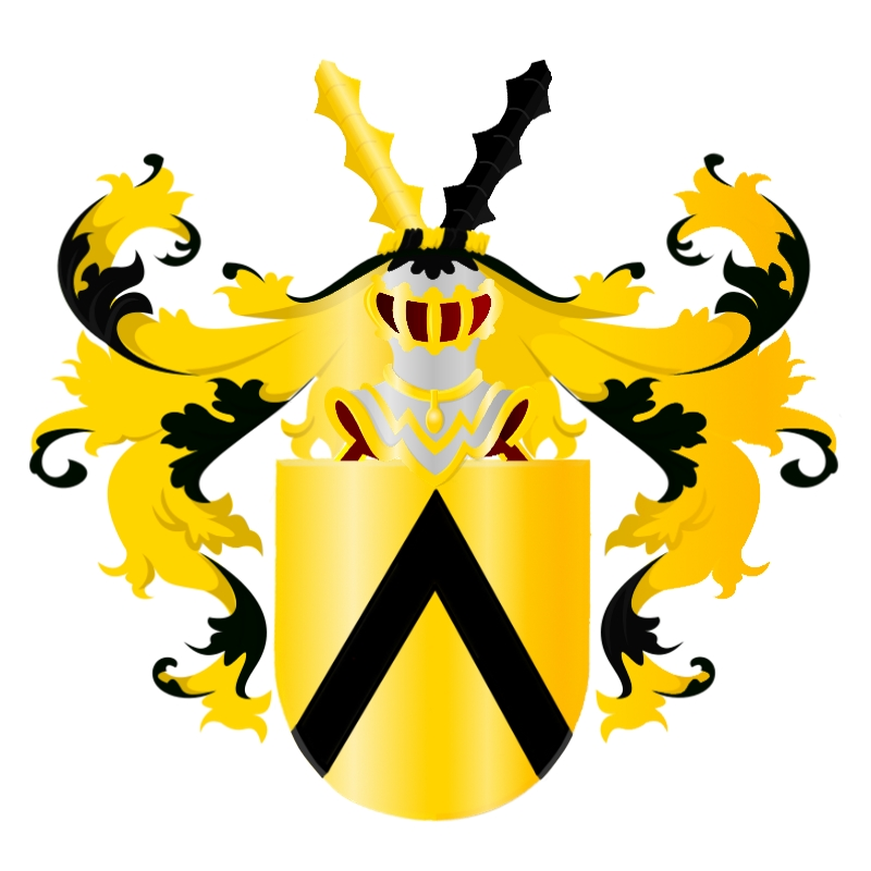 Coat of Arms of the Hofland family